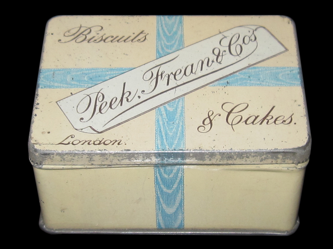 Peek, Frean & Co. factory sample, 1870-1900. Manufacturers often produced sample-sized boxes to promote their latest designs and products. Victoria and Albert Museum.